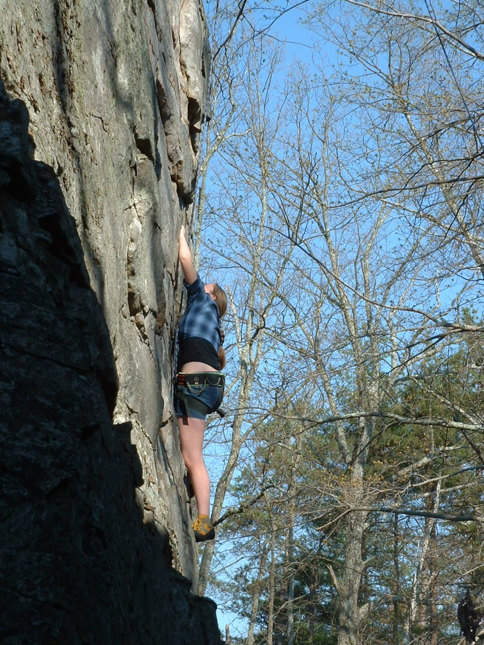 Ascending an un-named wall at Rocktown, GA USA